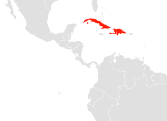 Distribution of Phyllonycteris poeyi